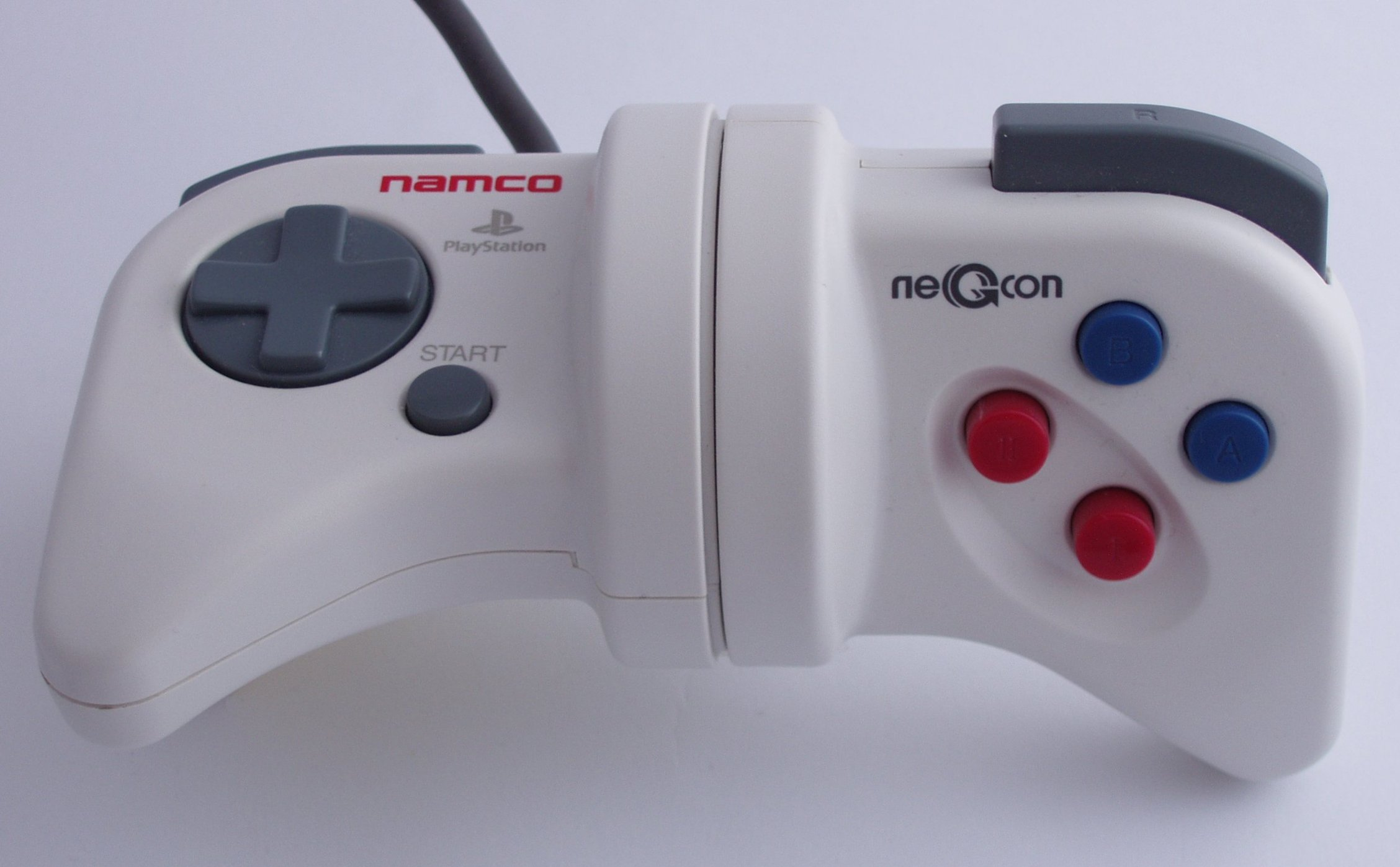 Description: The Namco NeGcon Playstation controller in its twisted position. Source: Self-made Photographer: Malcolm Tyrrell Camera: Olympus C5000Z (image edited in The GIMP)